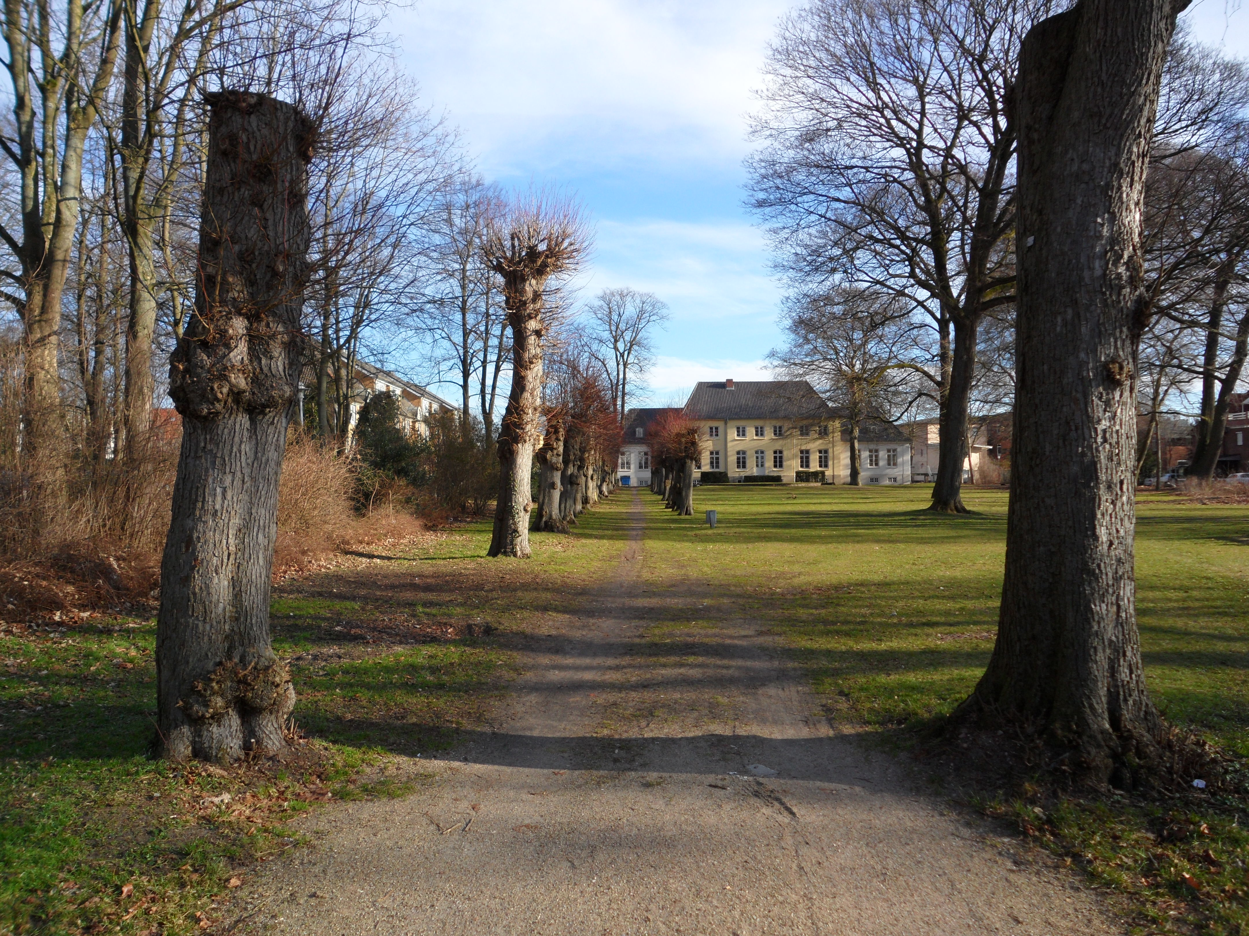 Lime tree alley in the garden of the Casper-Von-Saldern-Haus with house in the background